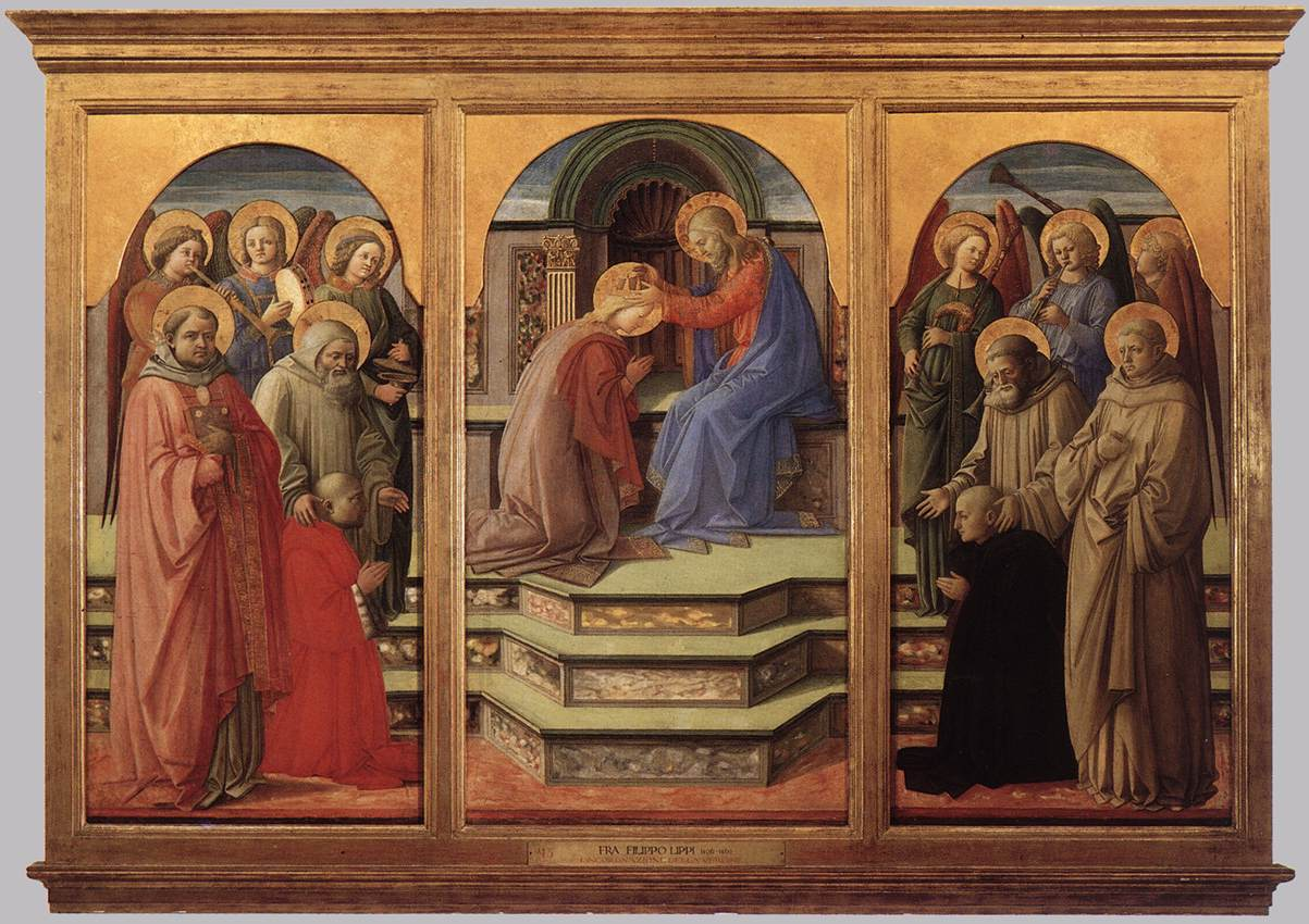 Filippo Lippi, Coronation of the Virgin, 1441-45, Wood, 167 x 69, 172 x 93, 167 x 82 cm, Pinacoteca, Vatican.